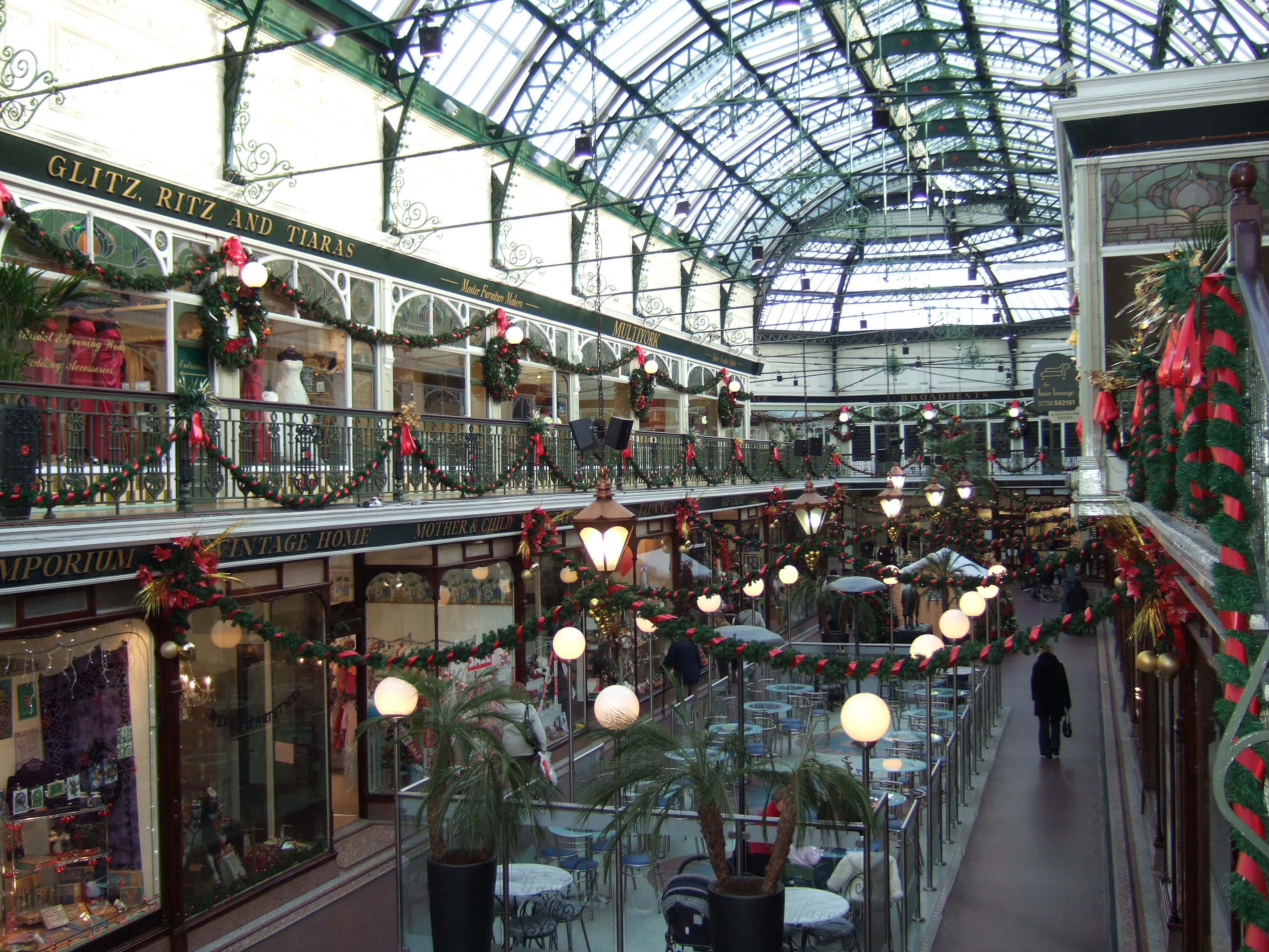 The interior of Wayfarers Arcade in Southport, Merseyside, decorated for Christmas.